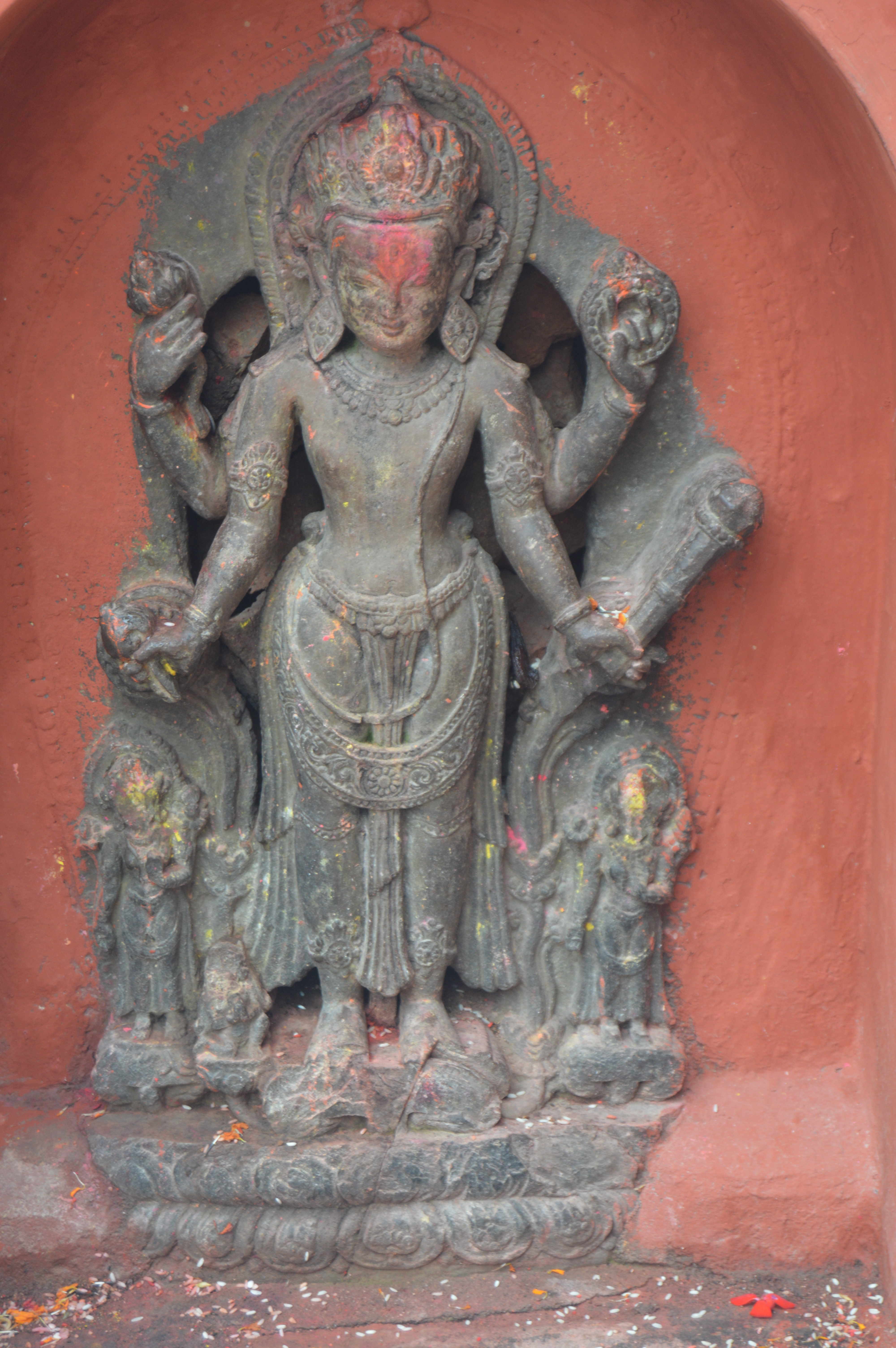 Kumbheshwar Temple (Mahadev)